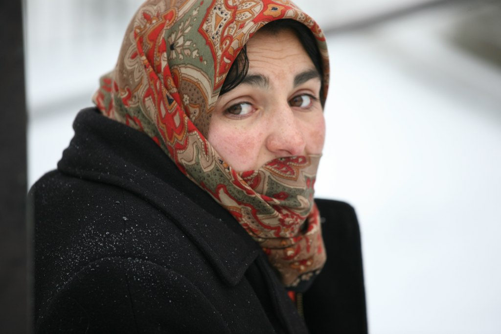 Portrait of Refugee